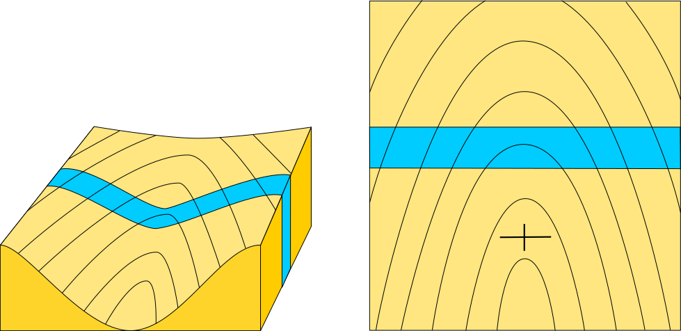 Vertical layers: constitutes a pattern of straight and parallel traces regardless of the shape of the relief.